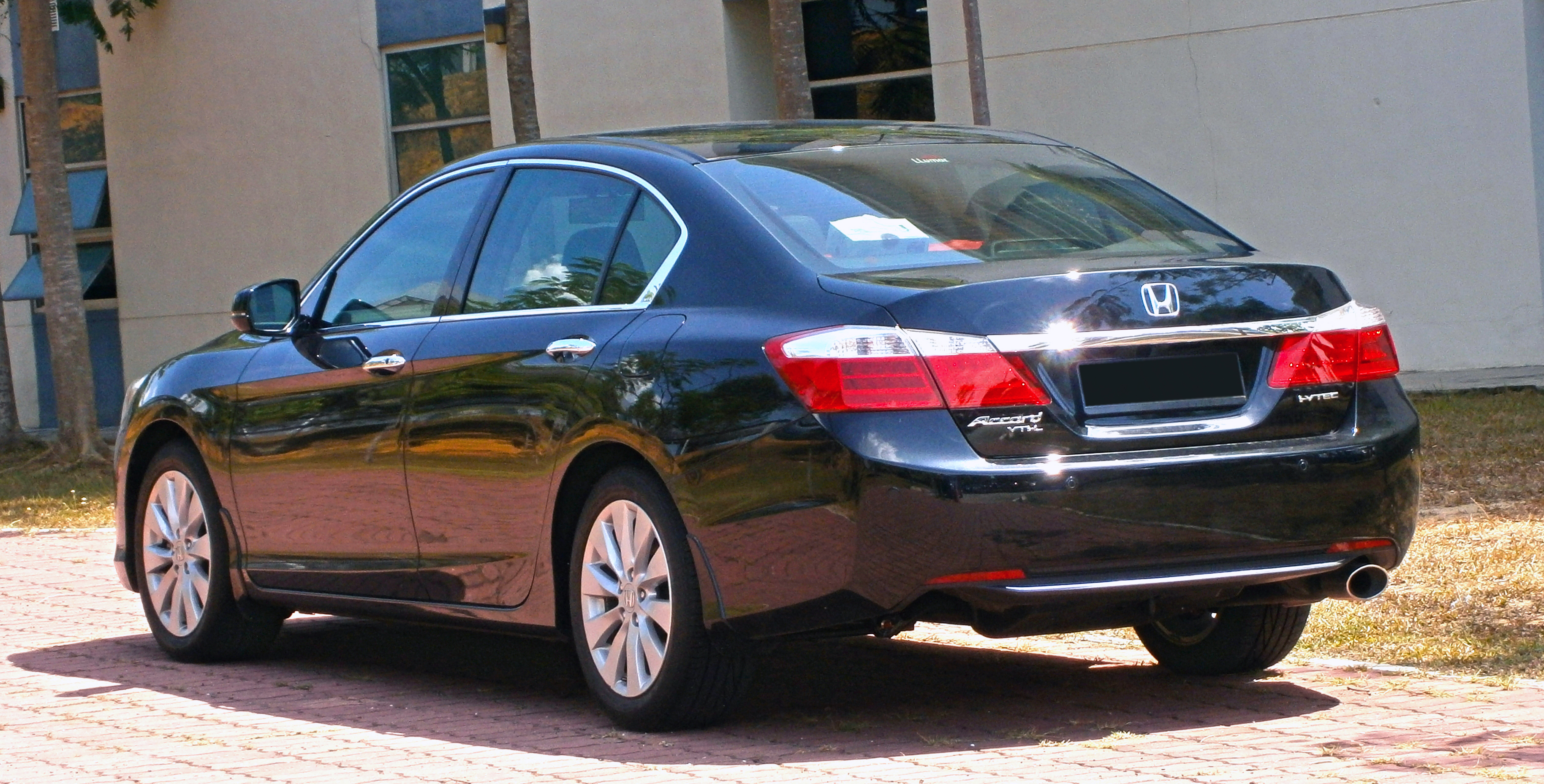 2014 Honda Accord 2.0 VTi-L in Cyberjaya, Malaysia. Colour : Crystal Black Pearl